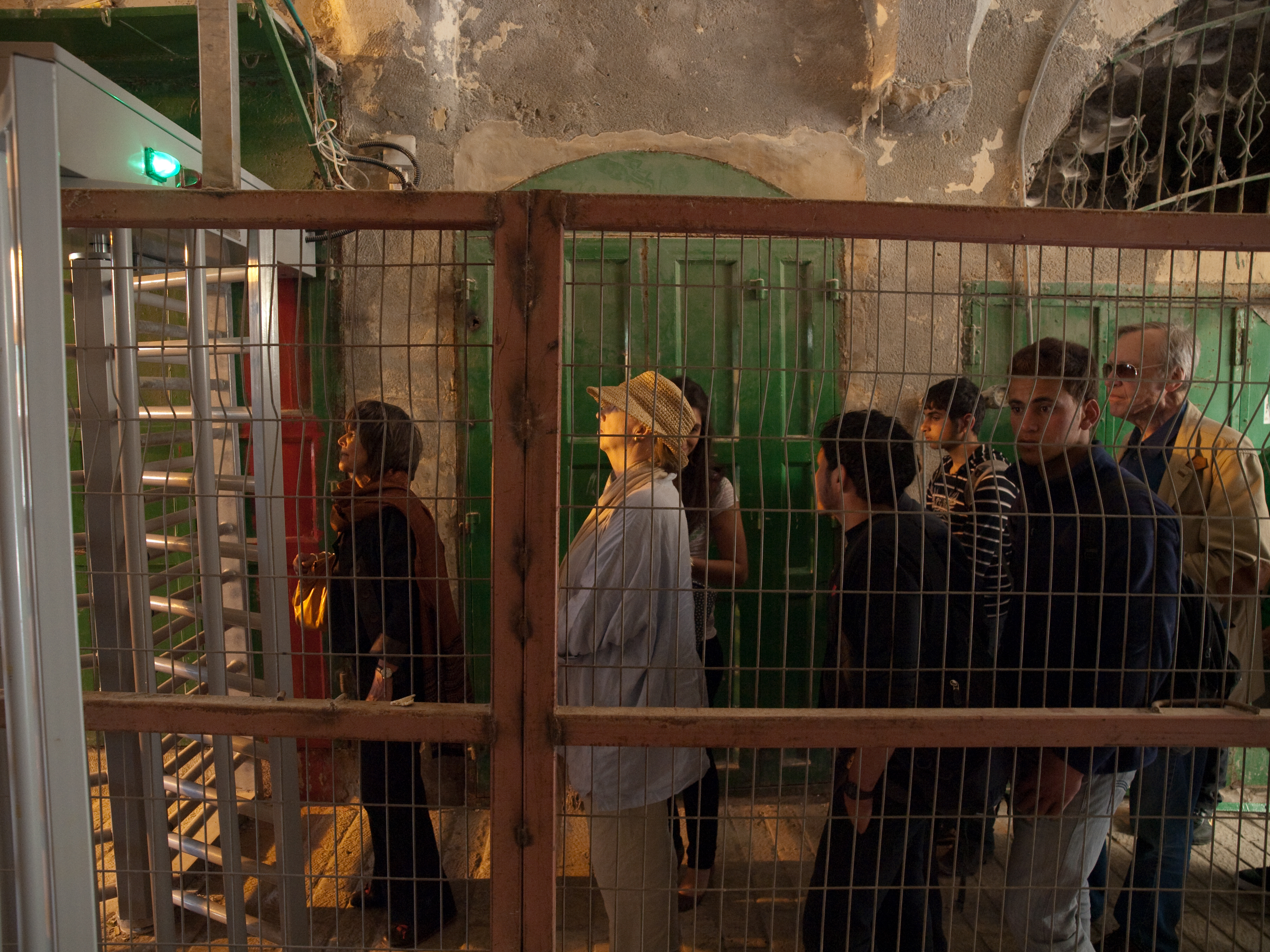 The only entrance to the Ibrahimi mosque